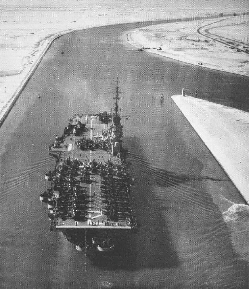 The U.S. aircraft carrier USS Hornet (CVA-12) transiting the Suez Canal on 4 June 1954. Hornet, with assigned Carrier Air Group 9 (CVG-9), was on a world cruise from 11 May to 12 December 1954.